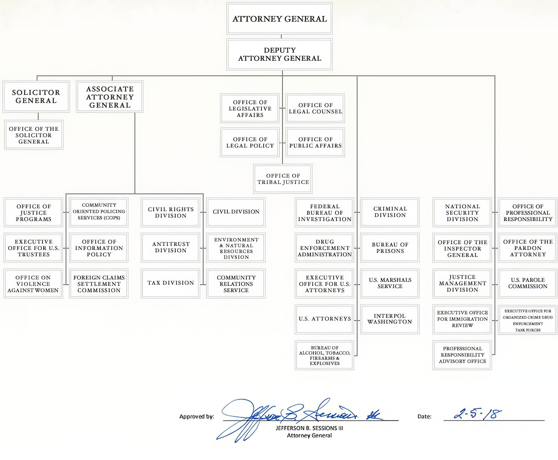 Organizational chart for the United States Department of Justice